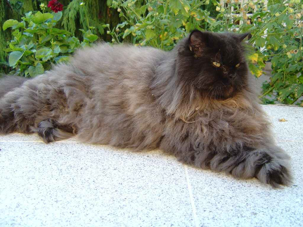 Black persian (male), born in 1998. Photo taken in 2005 by the owner Andreas Koll in Bergfelde, Germany. The picture is free to copy when the owner's name is mentioned.